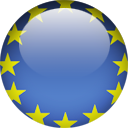 Button-like image of country described in filename